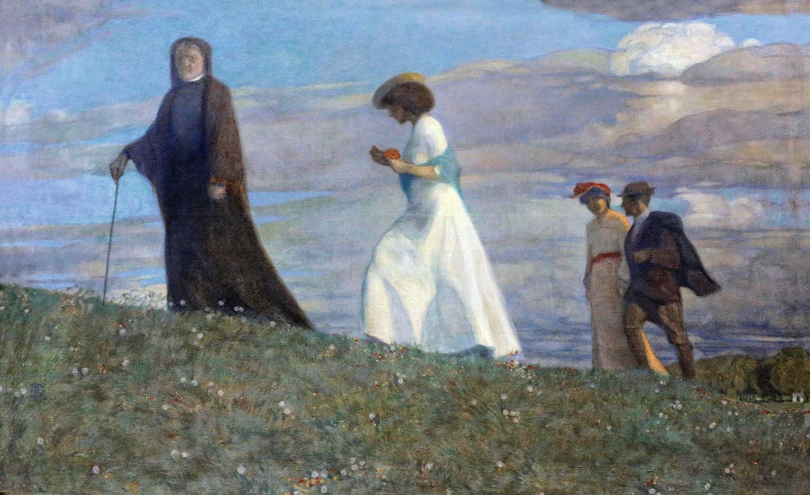 La Promenade by Karl Schmoll von Eisenwerth, 1905